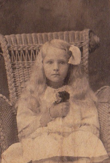 Restoration of File:Baby Ruth Cleveland.jpg